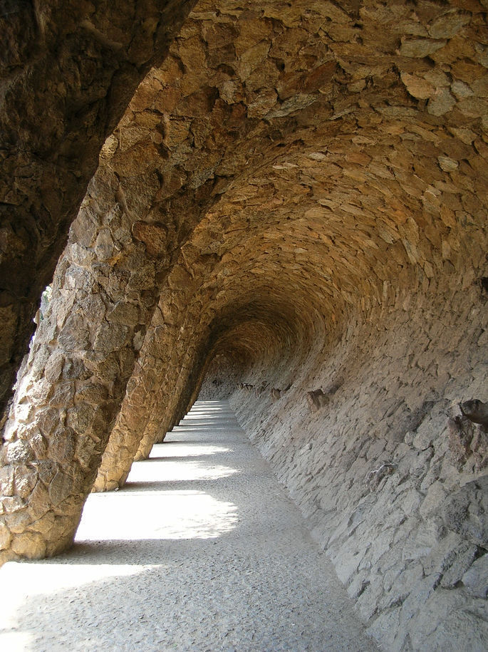 The colonnade "La Ola" in the park Güell in Barcelona.